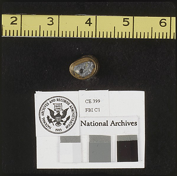 Warren Commission exhibit CE399, the “single” or “magic” bullet. Photo from the National Archives and Records Administration. ARC: 305144